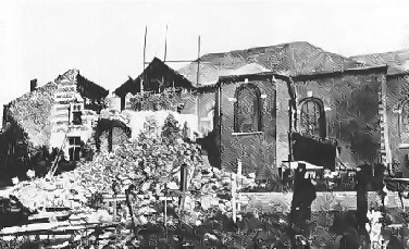 Heer-Maastricht. View of the 10th-century church tower after its collapse in 1890. Unknown photographer.